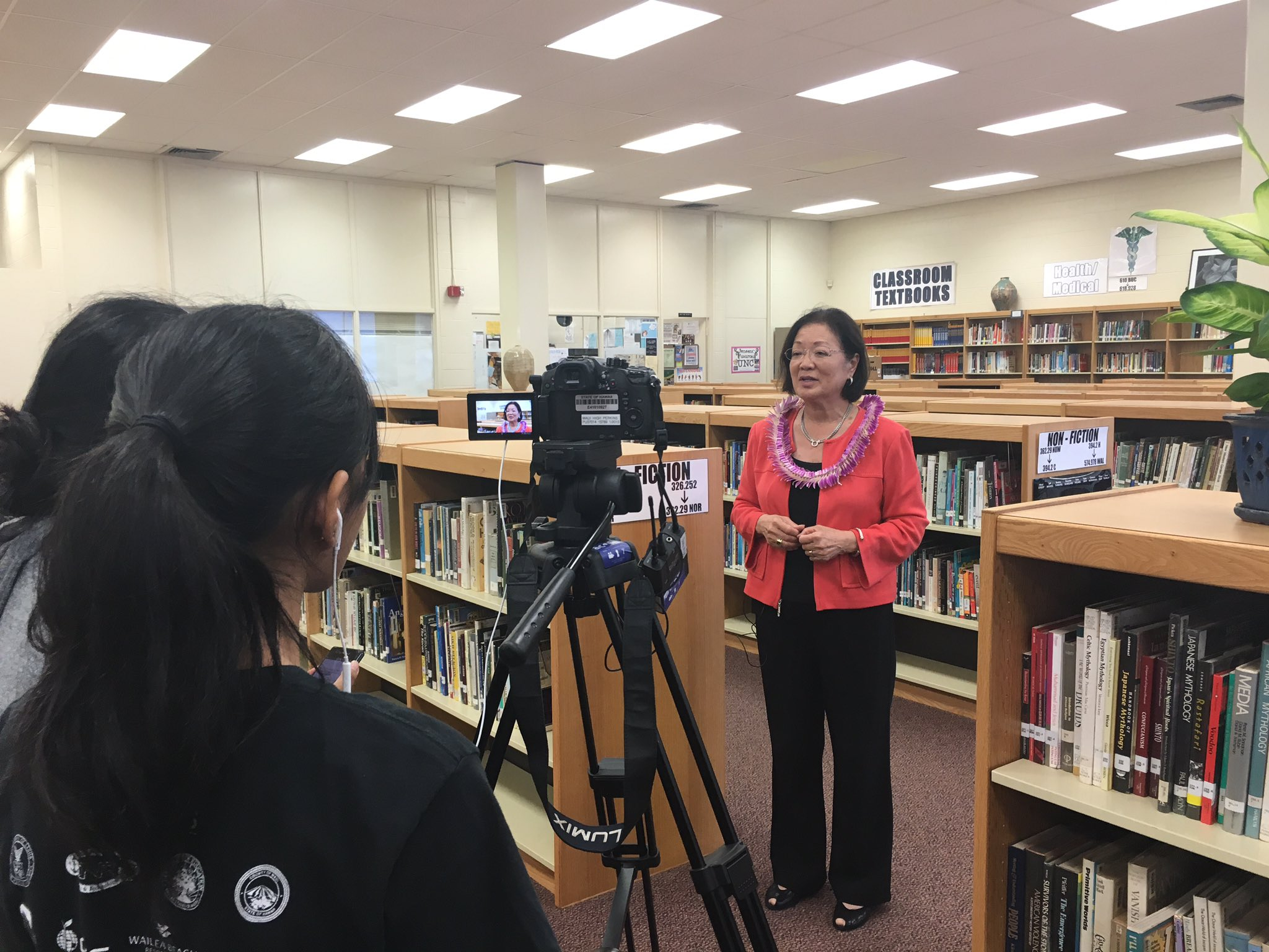 Mahalo to Maui High digital media students for streaming today's hearing.